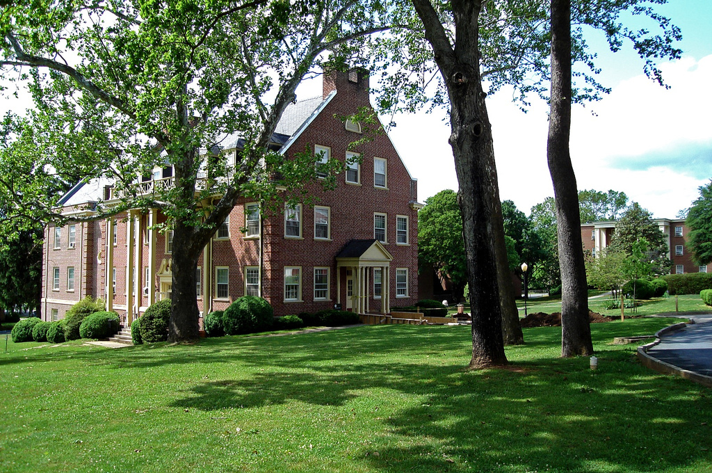 SVU Durham